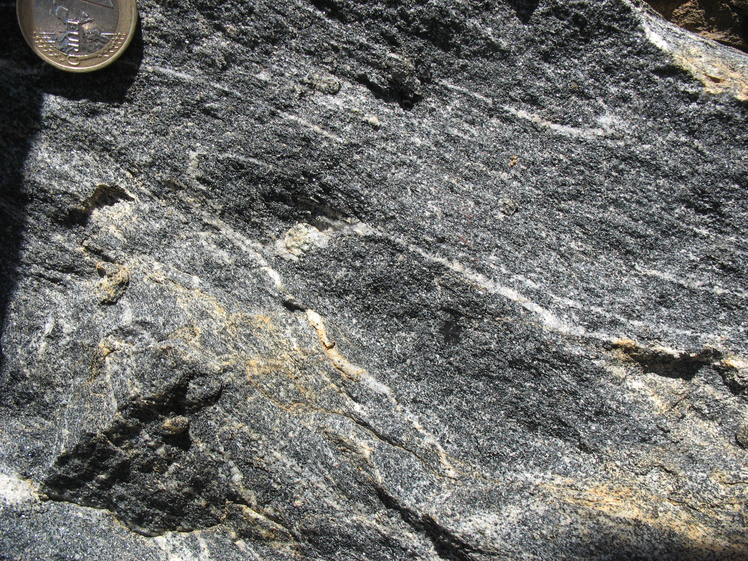 Amphibolite. Acebuches, Almonaster la Real, Huelva, Spain. Black mineral: amphibole; white: plagioclase.